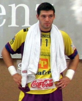 Víctor Hugo López, Spanish handballer.